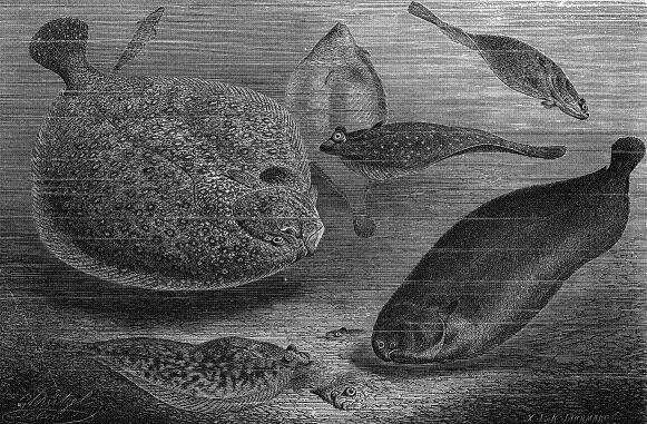 19th century wood engraving of bony flatfish, including turbot, sole, and plaice.